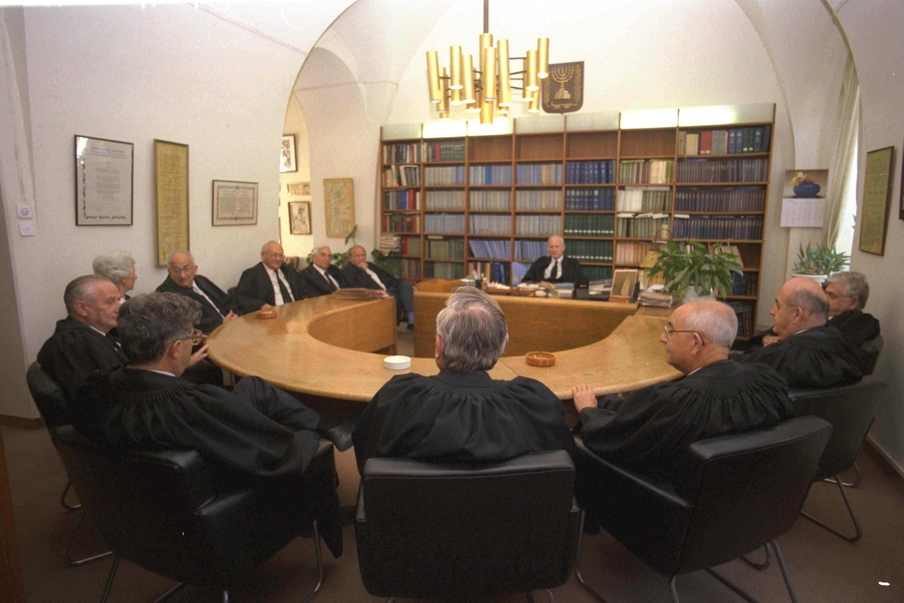 Supreme Court Pres. Meir Shamgar at the justices meeting in his office at the old supreme court building in the Russian compound in Jerusalem. נשיא בית המשפט העליון, מאיר שמגר, בפגישה במשרדו בבית המשפט העליון הישן במגרש הרוסים בירושלים Photo: KOREN ZIV, 08/31/1992